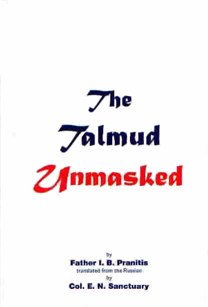 Book cover of a modern edition of The Talmud Unmasked, by Justinas Pranaitis (CPA Book Publisher, 2009).